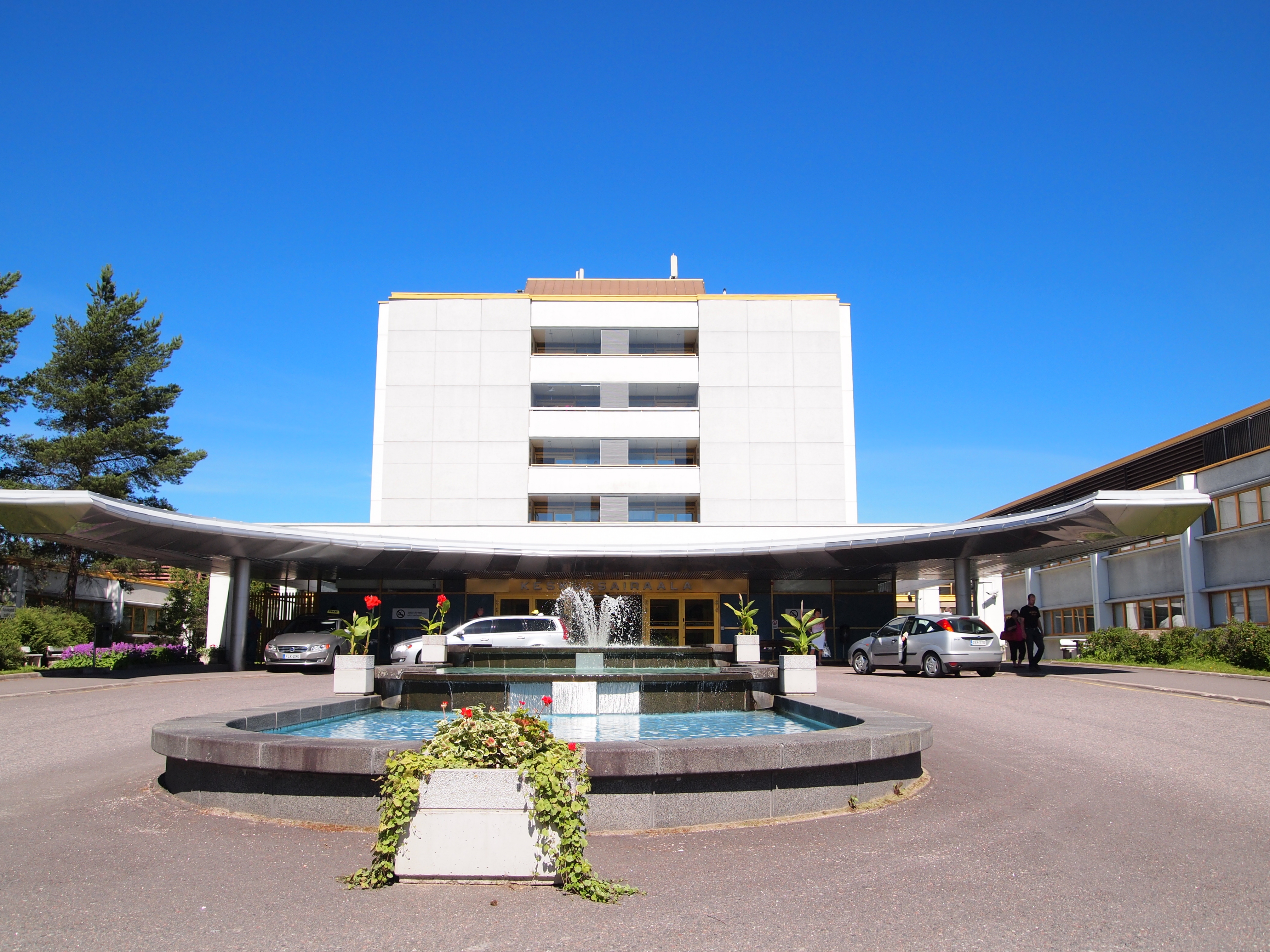 Lahti Central Hospital. This photograph was taken with an Olympus E-PL1